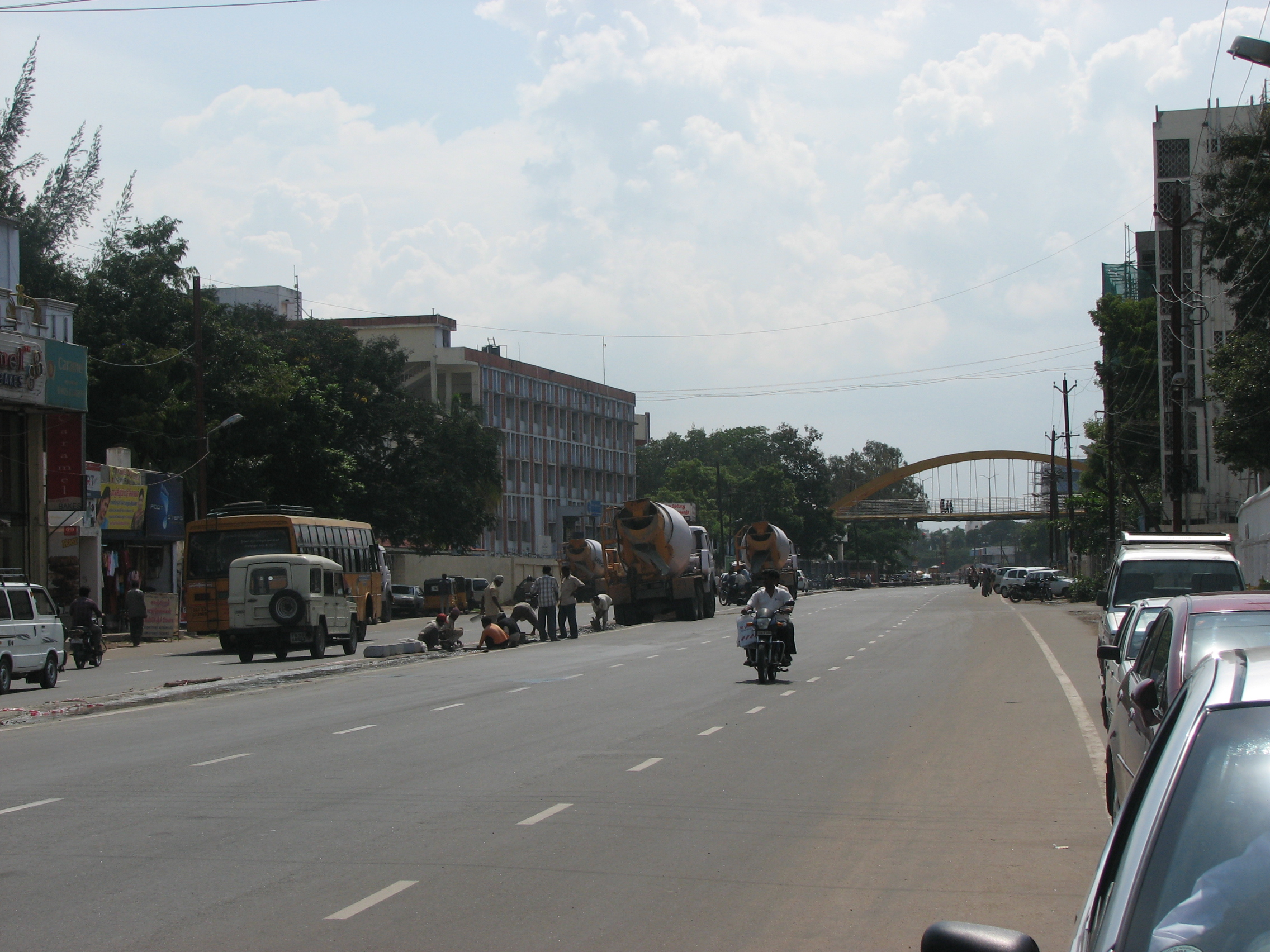 Coimbatore Avinasi road in peelamadu area near arya's hotel.